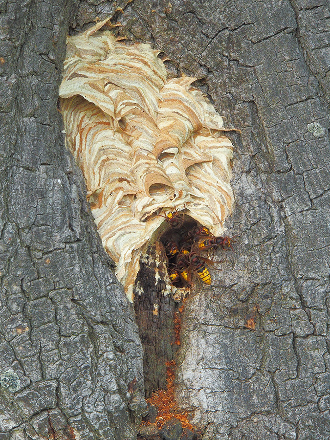 Hornets' nest in The Netherlands